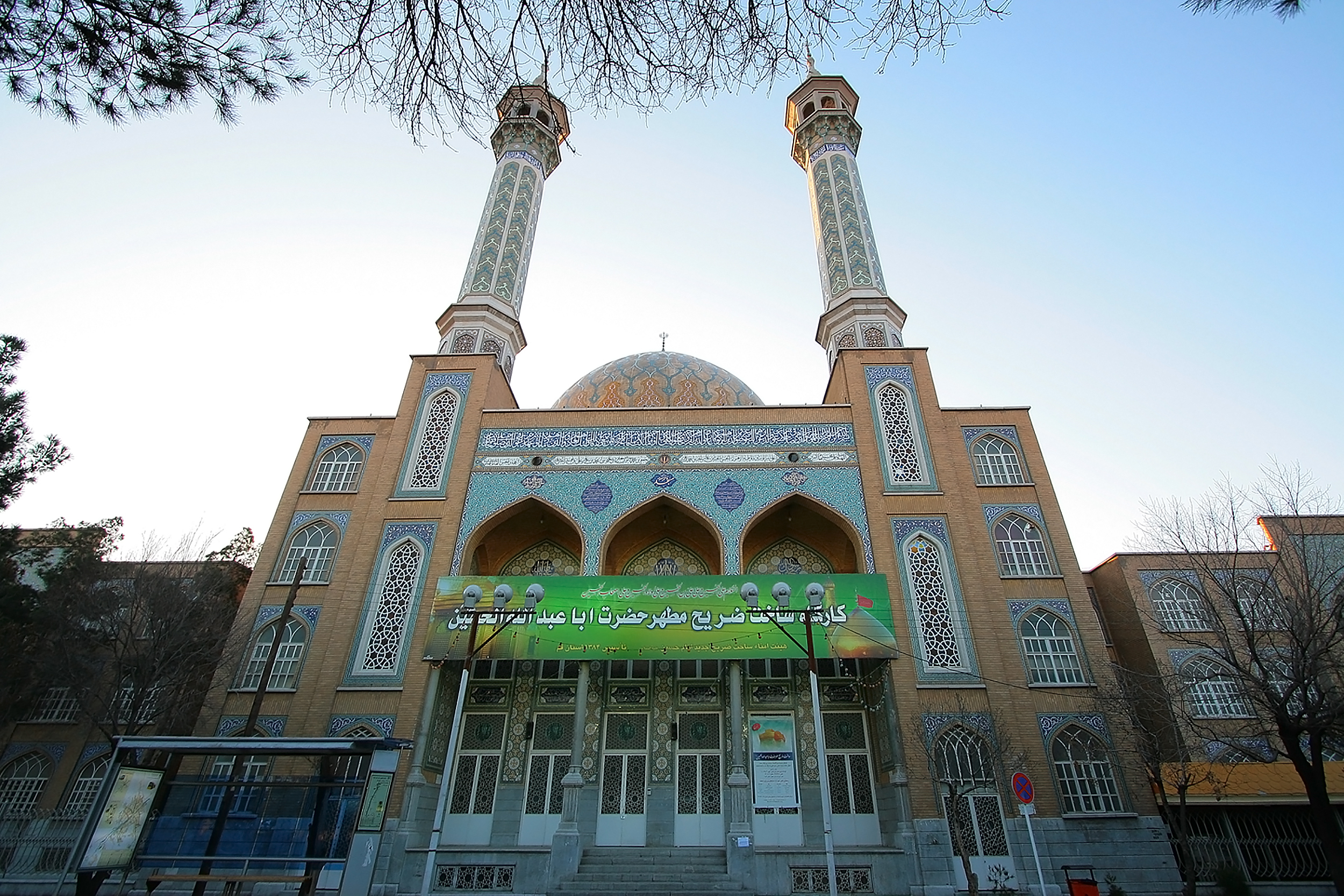 Qom also spelled as Ghom, is the eighth largest city in Iran. It lies 125 kilometres (78 mi) by road southwest of Tehran and is the capital of Qom Province. At the 2011 census its population was 1,074,036 (957,496 at the 2006 census, in 241,827 families), comprising 545,704 men and 528,332 women. It is situated on the banks of the Qom River. Qom is considered holy by Shiʿa Islam, as it is the site of the shrine of Fatema Mæ'sume, sister of Imam `Ali ibn Musa Rida (Persian Imam Reza, 789–816 AD). The city is the largest center for Shiʿa scholarship in the world, and is a significant destination of pilgrimage. Qom is famous for a brittle toffee called “Sohan” (Persian:سوهان), considered a souvenir of the city and sold by 2,000 to 2,500 “Sohan” shops.